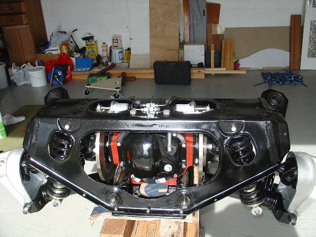 Rear view of the rear suspension subframe from a 1963 Jaguar E-Type, restored and ready to be refitted.